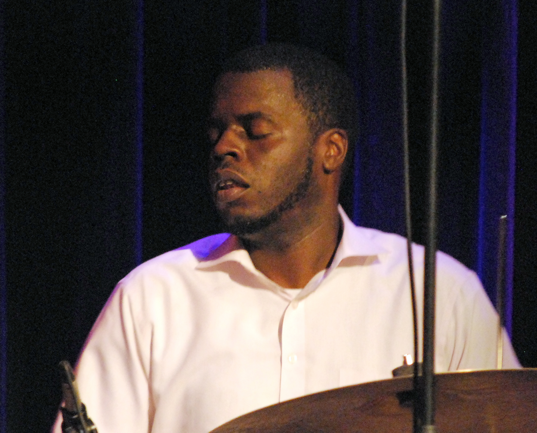 Gregory Hutchinson, Treibhaus Innsbruck, 2011